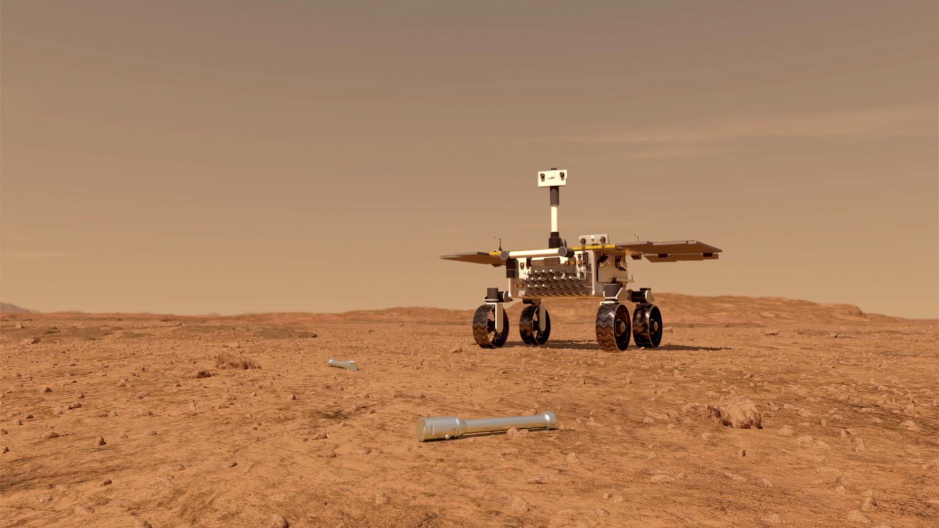 PIA23493: Fetch Rover Approaching Sample Tubes (Artist's Concept) This illustration shows a concept of what a rover fetching rock and soil samples on Mars for return to Earth could look like. The sample tube in this image would have been left on the surface by a previous mission, NASA's Mars 2020 rover. NASA and the European Space Agency (ESA) are solidifying concepts for a Mars sample return mission to return Mars 2020 samples to Earth for scientific investigation. NASA will deliver a Mars lander in the vicinity of Jezero Crater, where the Mars 2020 rover will have collected and cached samples. The lander will carry a NASA rocket (the Mars Ascent Vehicle) along with ESA's Sample Fetch Rover that is roughly the size of NASA's Opportunity Mars rover. The fetch rover will gather the cached samples and carry them back to the lander for transfer to the ascent vehicle; additional samples could also be delivered directly by Mars 2020. The ascent vehicle will then launch a special container holding the samples into Mars orbit. ESA will put a spacecraft in orbit around Mars before the ascent vehicle launches. This spacecraft will rendezvous with and capture the orbiting samples before returning them to Earth. NASA will provide the payload module for the orbiter.